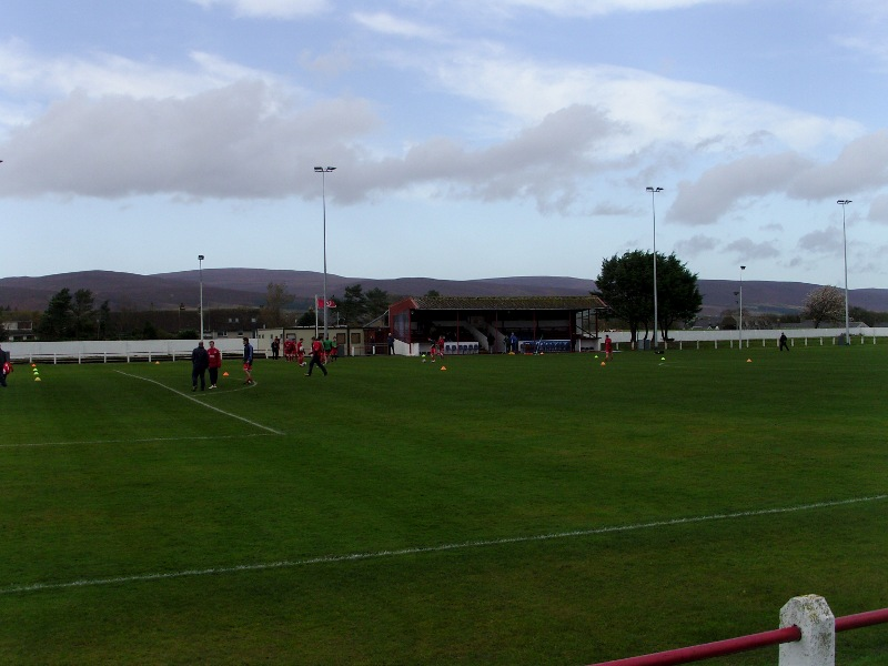 Dudgeon Park, home stadium of Brora Rangers F.C., Brora, Scotland